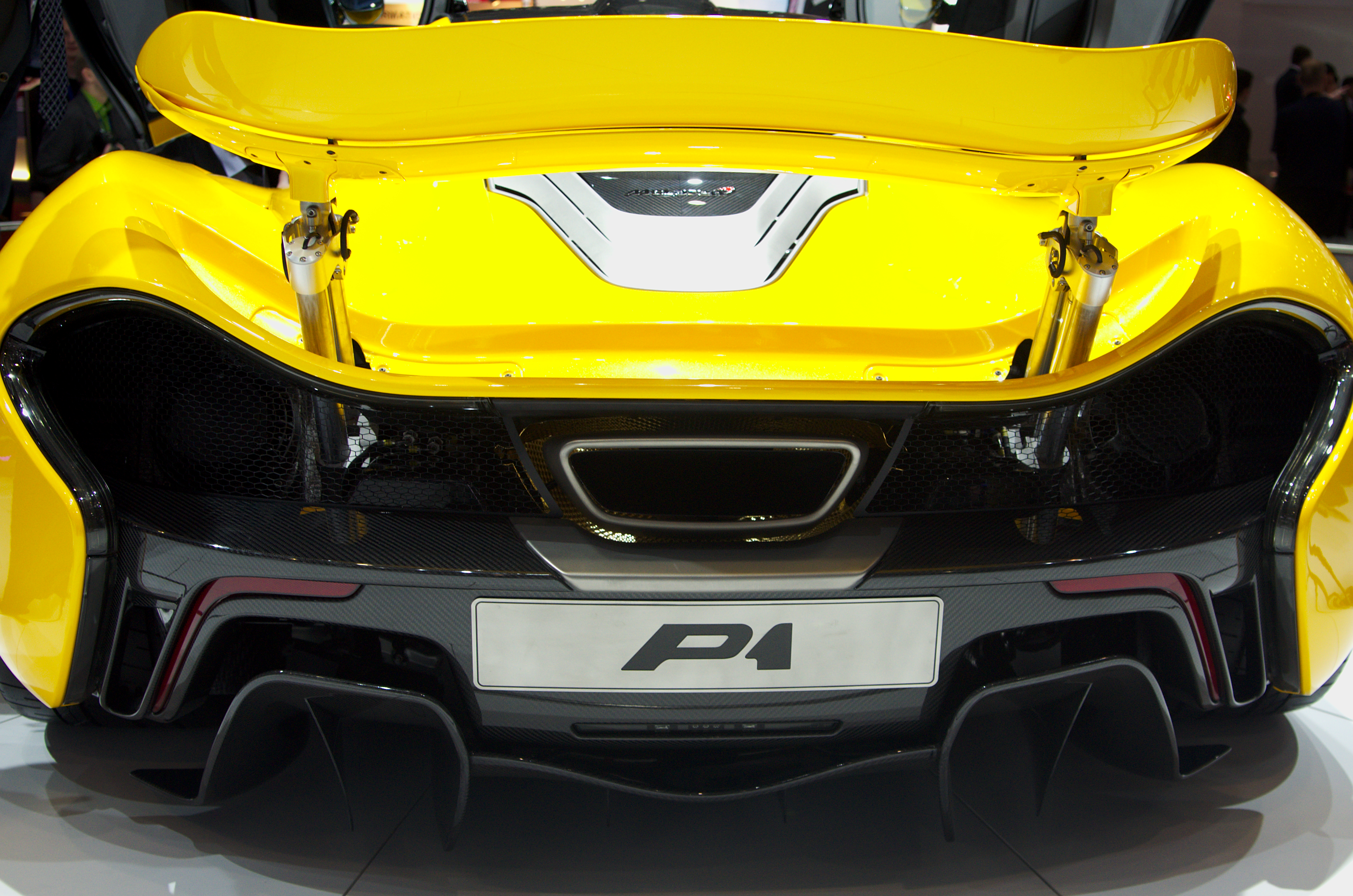 Geneva MotorShow 2013 - McLaren P1 Rear